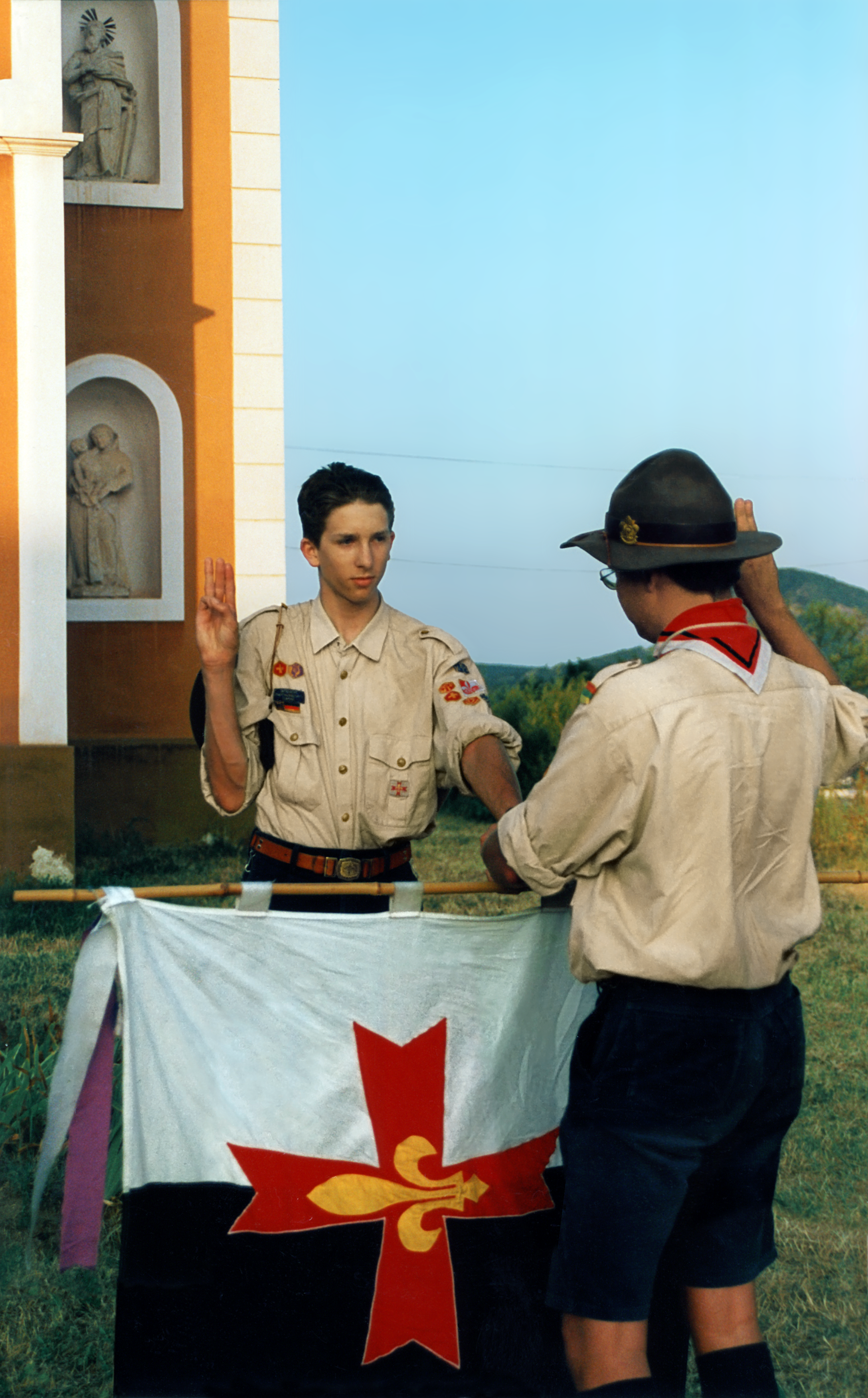 German Scouts of the Federation Scout Europe (FSE; today: International Union of Guides and Scouts of Europe ) at a Scout Promise ceremony at the St. George's mountain near the Lake Balaton in Hungary.